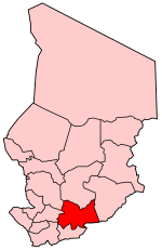 Map of Chad showing Moyen-Chari region.